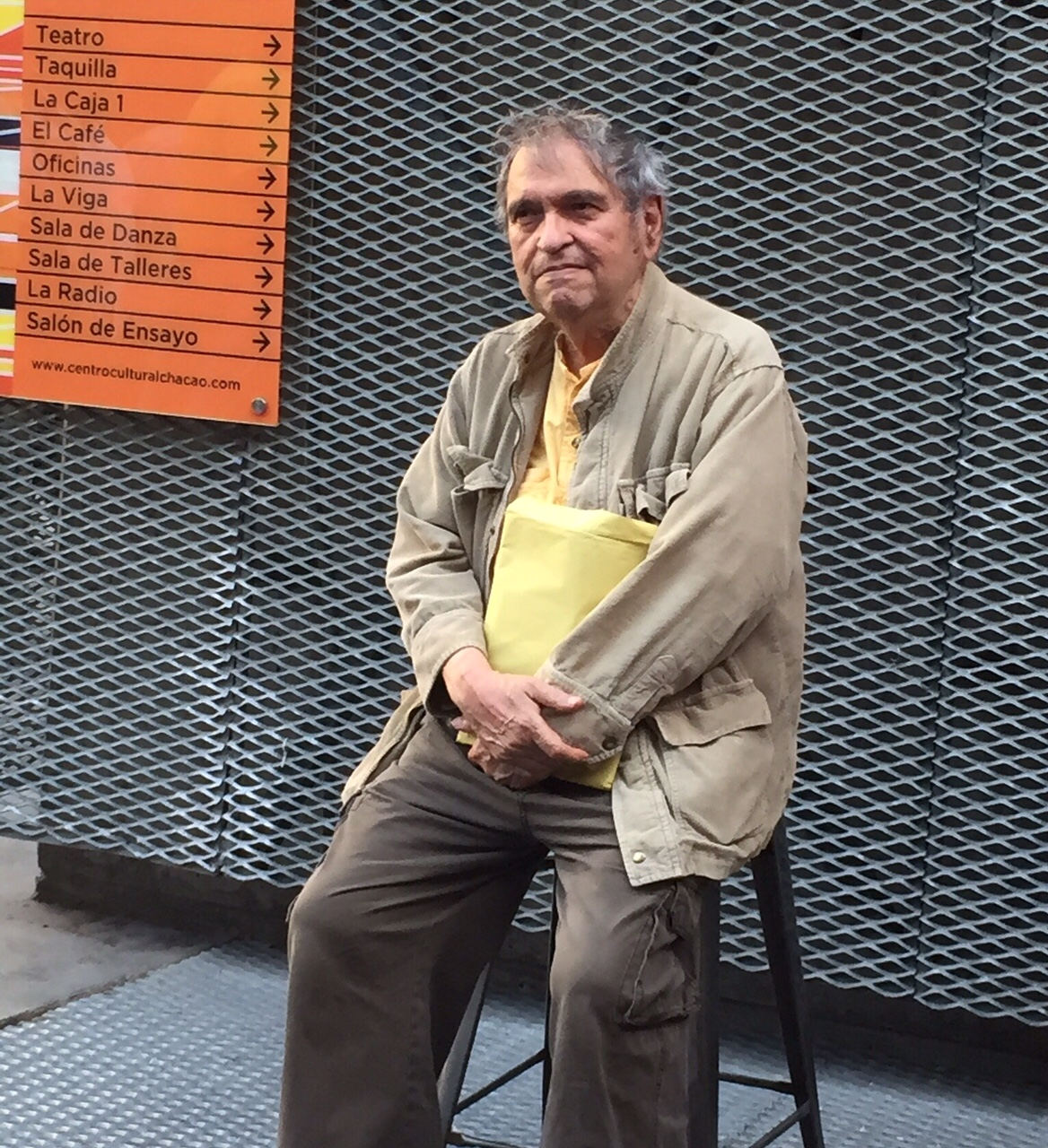 Venezuelan poet Rafael Cadenas in Centro Cultural Chacao. Caracas, Venezuela.